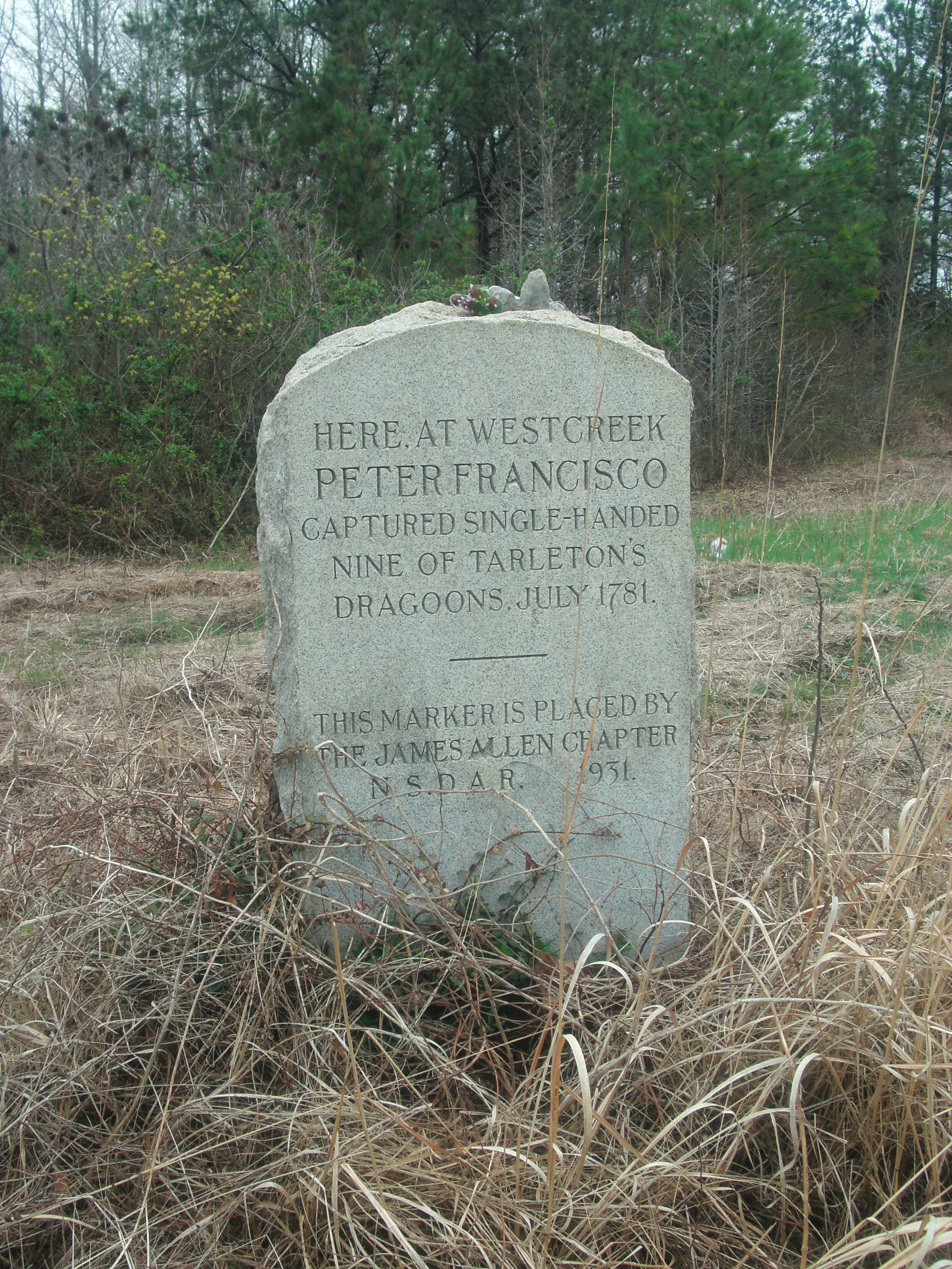 Marker memorializing Francisco's Fight in Nottoway County, Virginia, April, 2015 GEDSC DIGITAL CAMERA